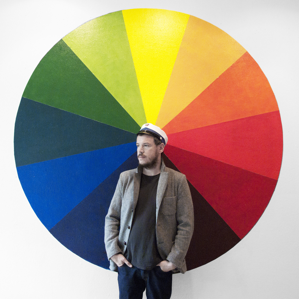 Jordi Labanda, fashion and advertising illustrator, was born in Mercedes (Uruguay). From the age of three he has lived in Barcelona, although nowadays he lives and works in New York. He is an internationally recognized artist due to his exclusive style and his numerous collaborations with publications such as Wallpaper, Vogue USA, Vogue Nippon, Visionaire, The NY Times Sunday Magazine, Fanzine 137, Apartmento and El Magazine de La vanguardia. Some of his corporative clients are, among others, Louis Vuitton, Moncler, Grand Marnier, Alessi, Zara, Vodafone, Adidas, Pepsi Light, Dior, Neiman Marcus, Knoll Internacional, Target, Danone, Nissan España or American Express. In addition, his work has been exhibited in galle- ries and museums in Tokyo, Paris, Milan, Buenos Aires and Barcelona. His last exhibition was in February 2011 in the Boutique Colette of Paris. Jordi’s iconographic silhouettes have been applied to girls’ stationary very successfully and sold inseveral countries for more than 10 years, becoming a “must have” item for thousands of teenagers. Recently he has launched, together with Ana García-Siñeriz, a collection of children’s books published by Editorial Planeta “La banda de Zoe” Part of his work has been compiled in books such as the best-seller "Heyday", "Si te he visto no me acuerdo " or the collection "Booklets", all which are published by Editorial RM.